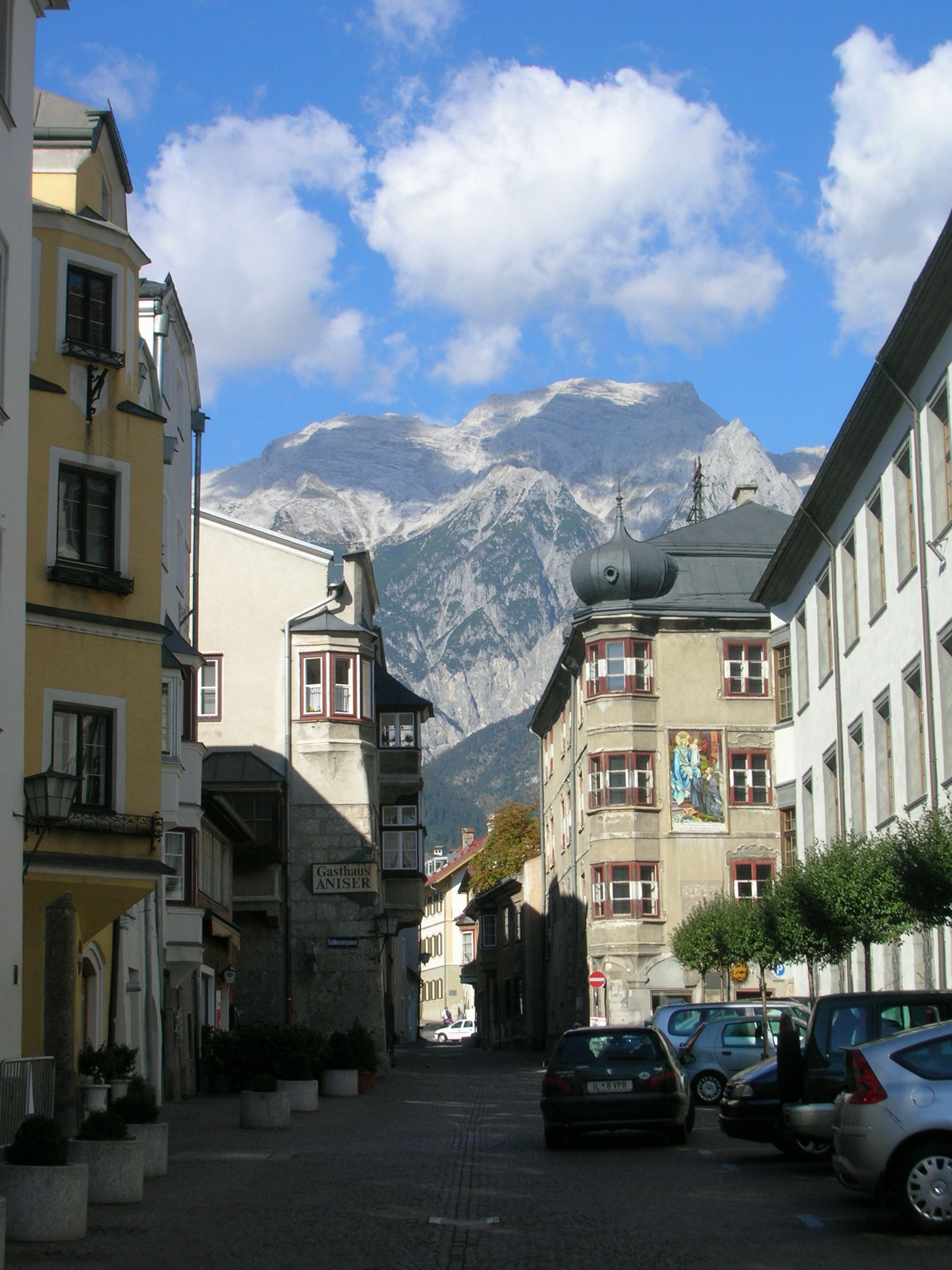 Hall in Tyrol - street in the old town with Bettelwurf in the background